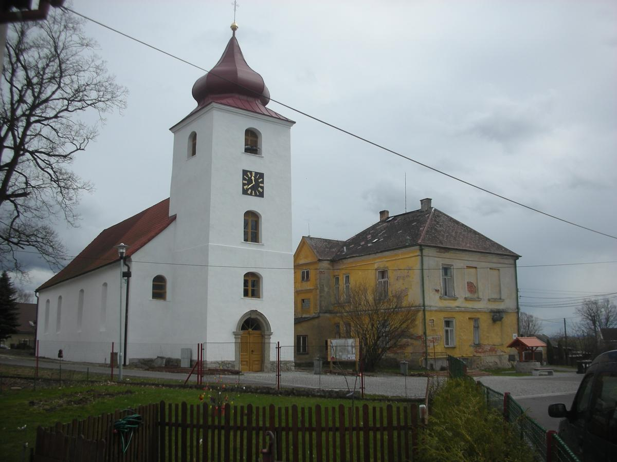 Church of st. Catherine in Křižovatka after reconstruction, Cheb District, Czech Republic